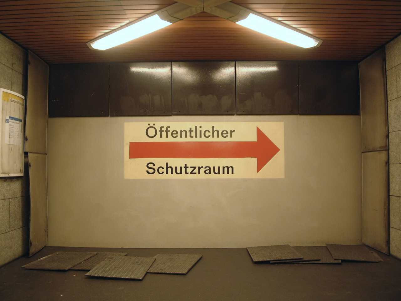 Blast door for radioprotection. The metro station Pankstraße was designed to be used as a public fallout shelter. Both entrances to the entresol can be sealed with one of these concrete sliding panels. The only way into the shelter would lead through the airlock which is marked by the red arrow.